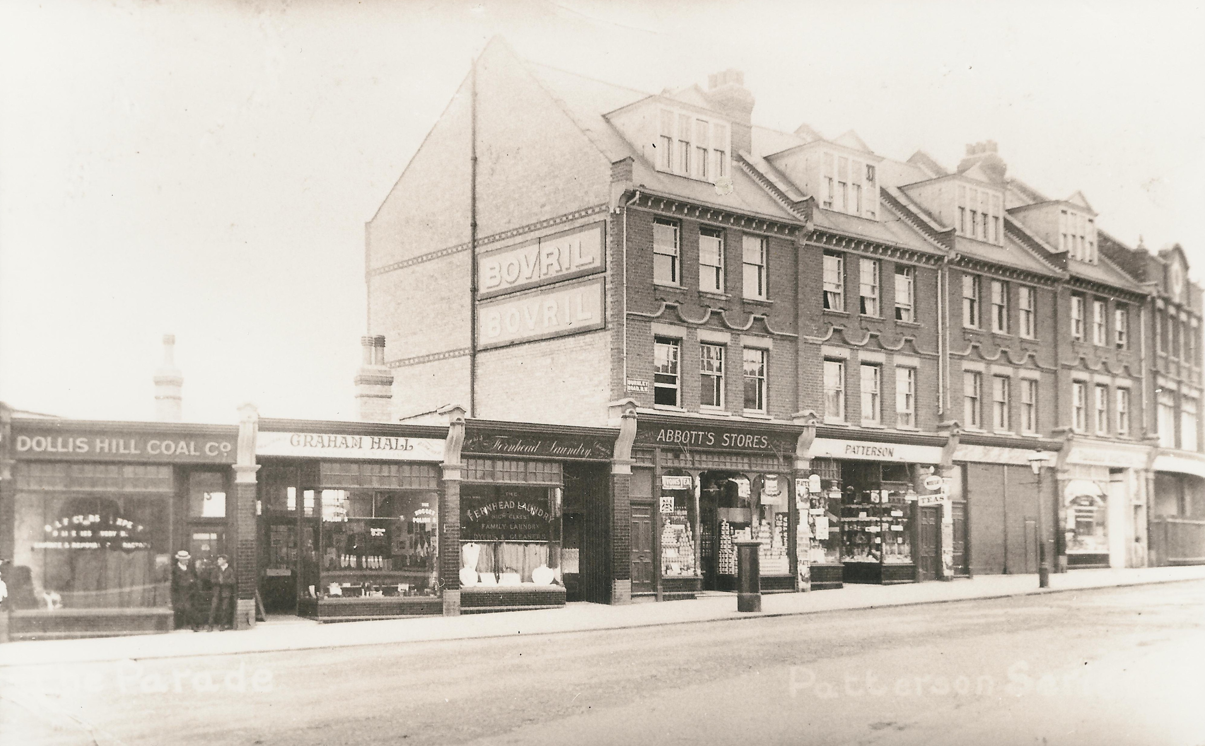 Burnley Road, London c. 1910